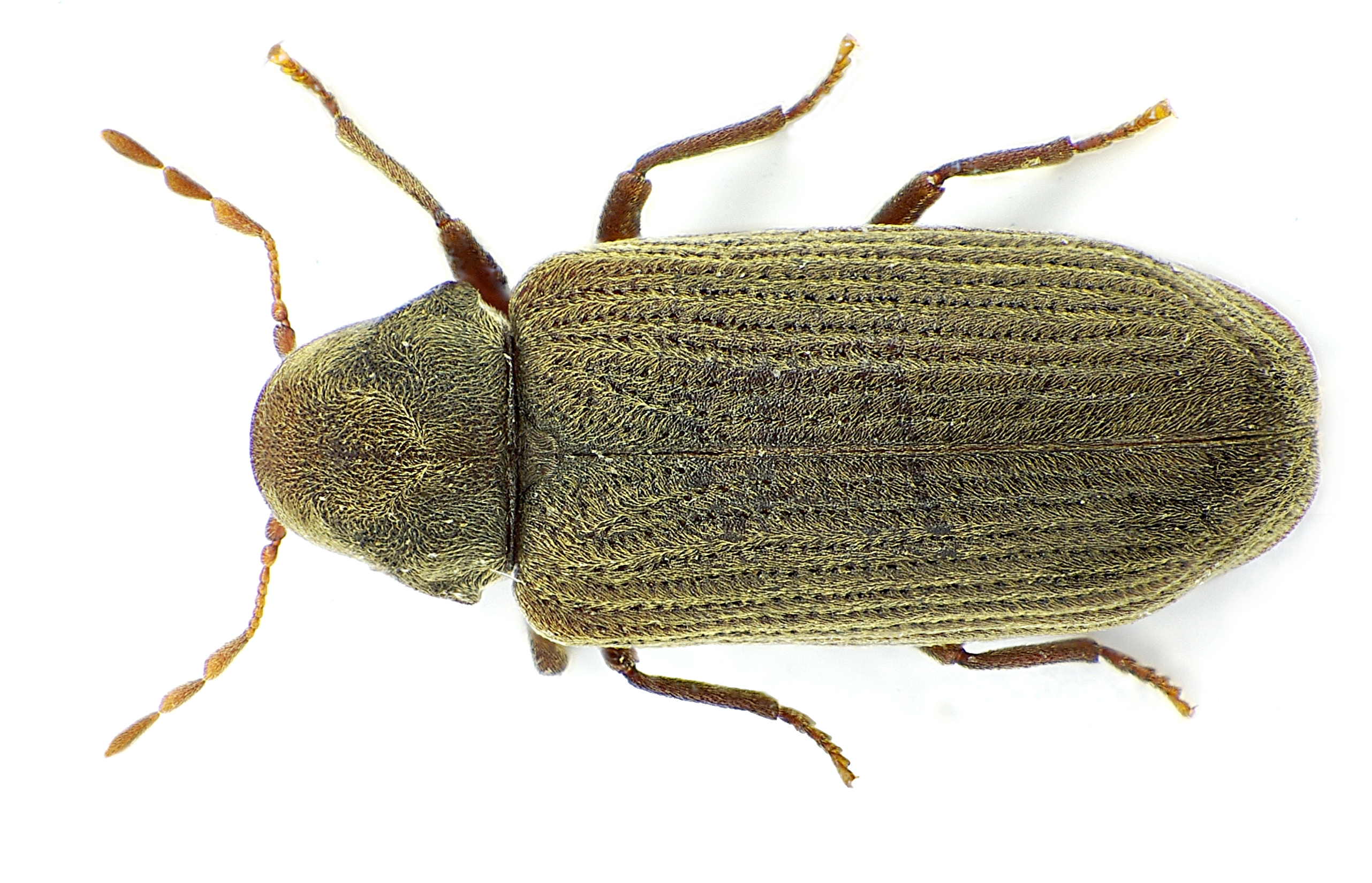 Anobium punctatum from Southern Germany